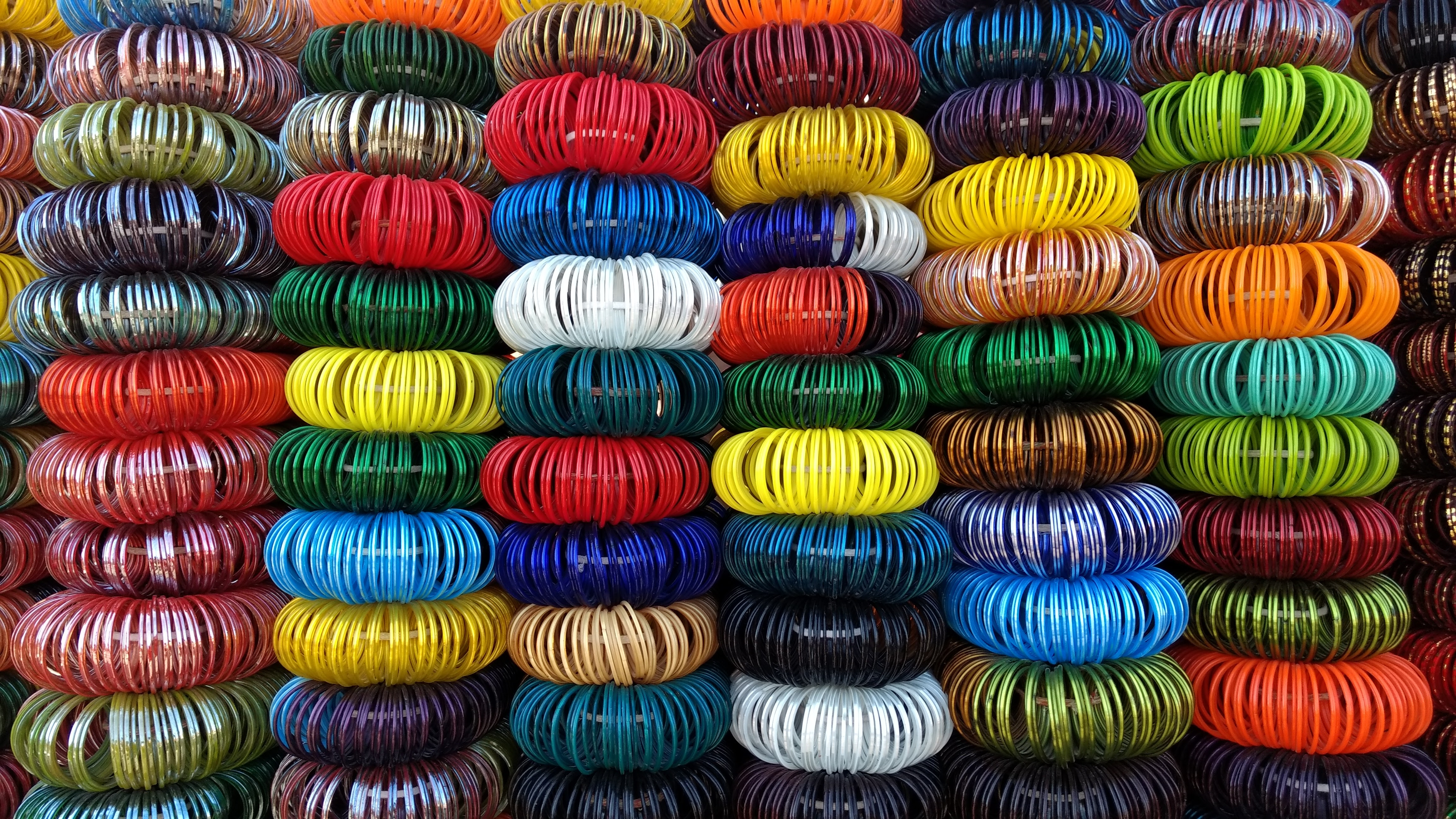 Bangles made of glass, stacked for sale in local market near Clock Tower, Jodhpur, India